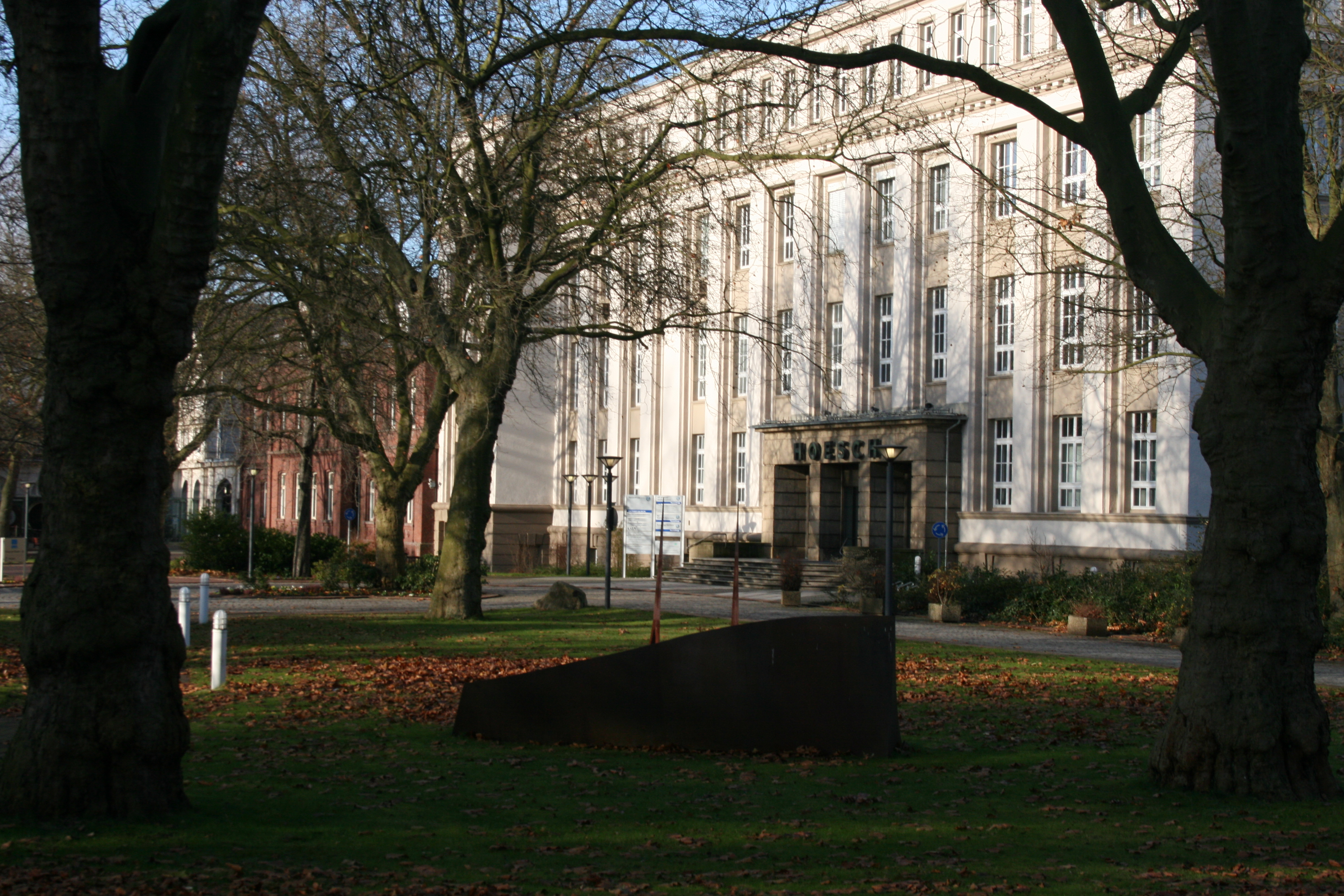 Hoesch Museum Dortmund